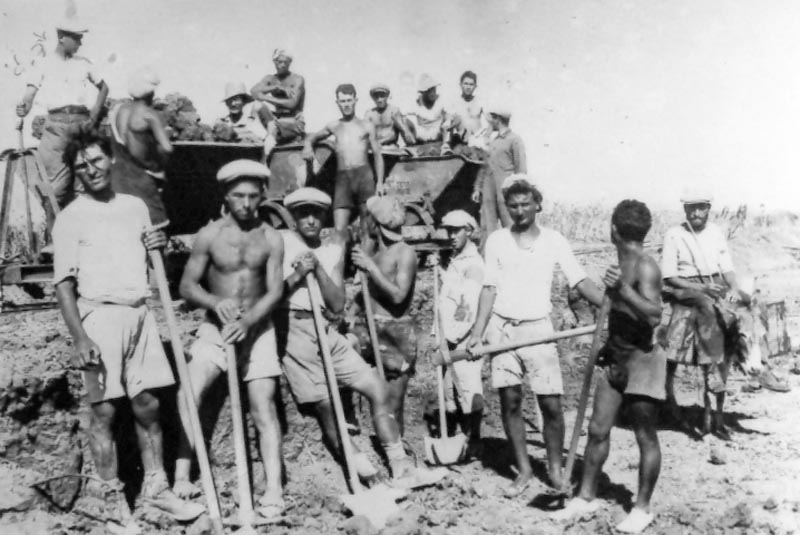 Econimy of Israel